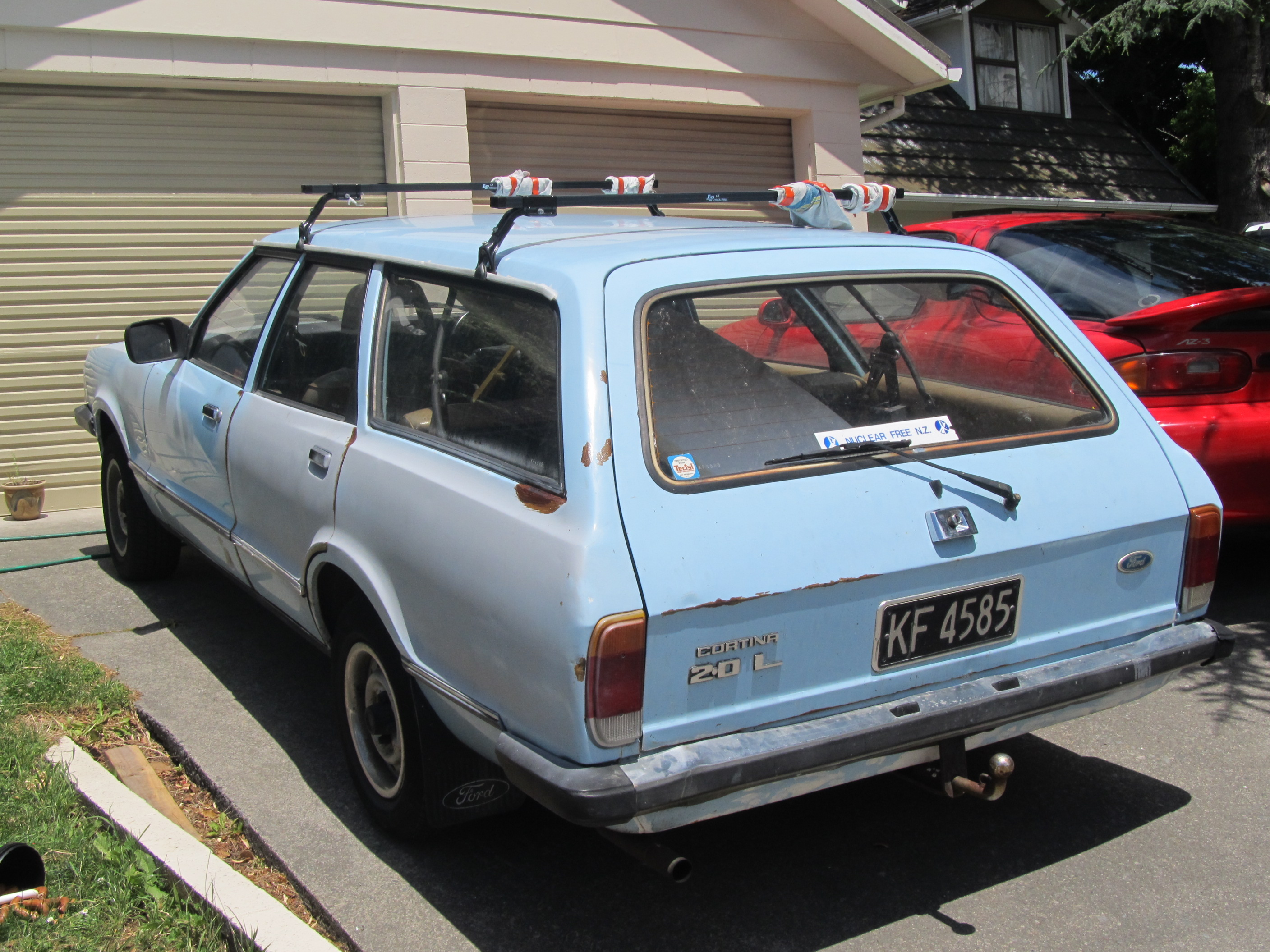 KF4585 This was very original, right down to the 80s 'Nuclear Free NZ' sticker! It's funny to think these were once as common as Mondeo wagons are today, but there are still quite a few Cortinas about here - we probably come second to the UK for most surviving Cortinas...